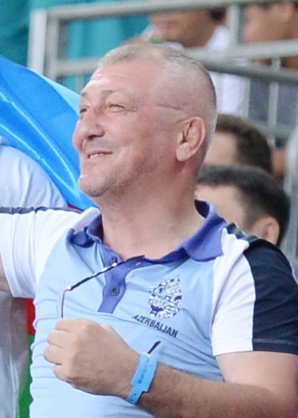 Nazim Huseynov at the 2016 Summer Olympics